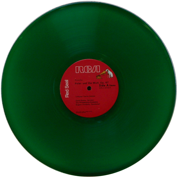 The original 1978 US version of the LP album "David Bowie Narrates Prokofiev's Peter and the Wolf"